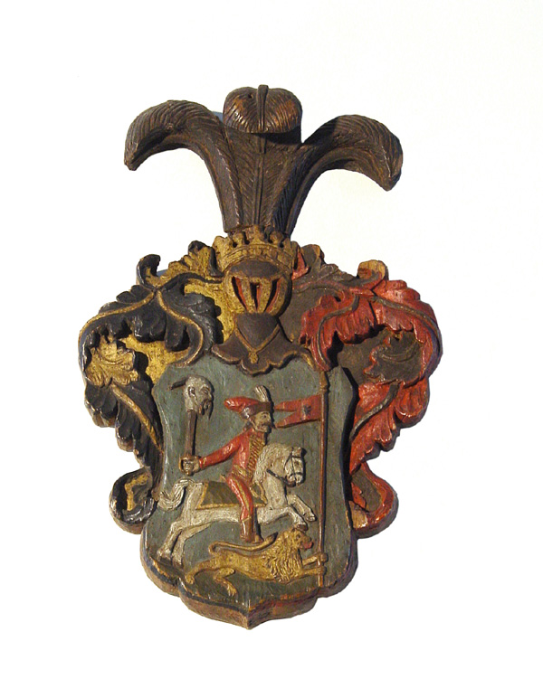 Handmade Coat of Arms of Serbian nobleman Sava Tekelija